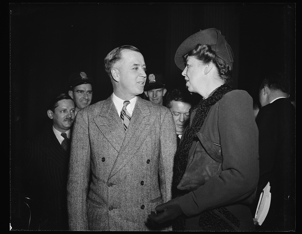 Eleanor Roosevelt chats with Rep. Joe Starnes, acting head of Dies Committee, Washington, D.C., November 30, 1939.